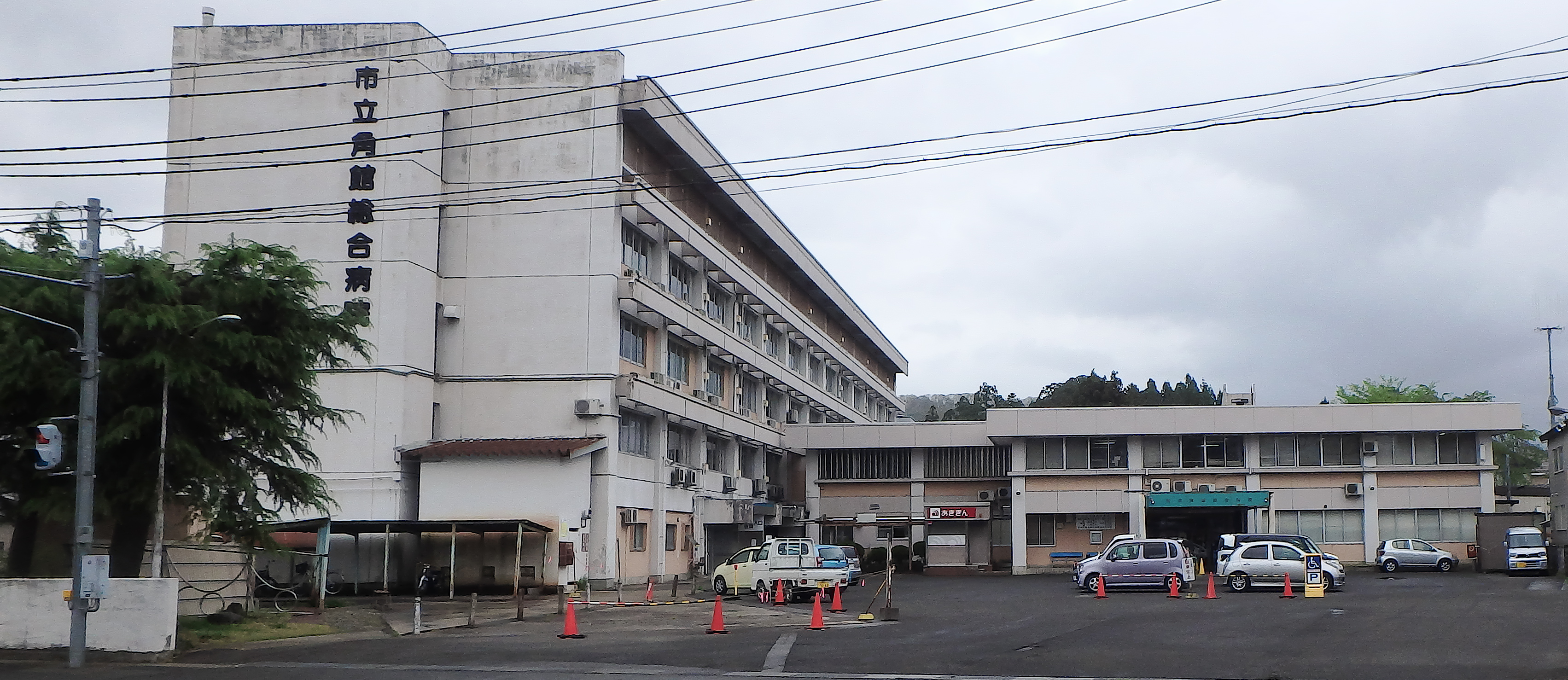 Municipal Kakunodate General Hospital,Akita prefecture,Japan